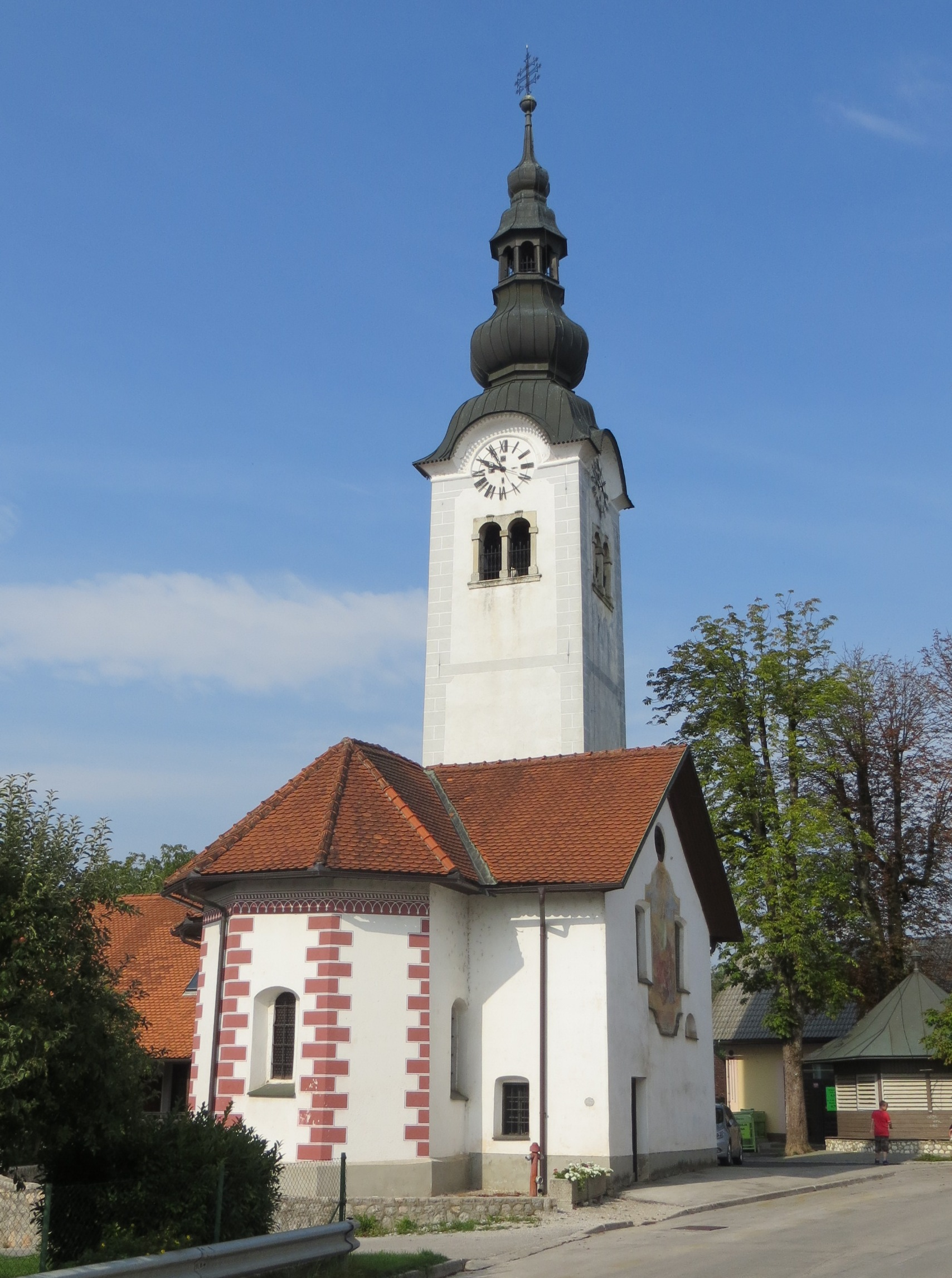 Saint Matthew's Church in Hrastje, Municipality of Kranj, Slovenia